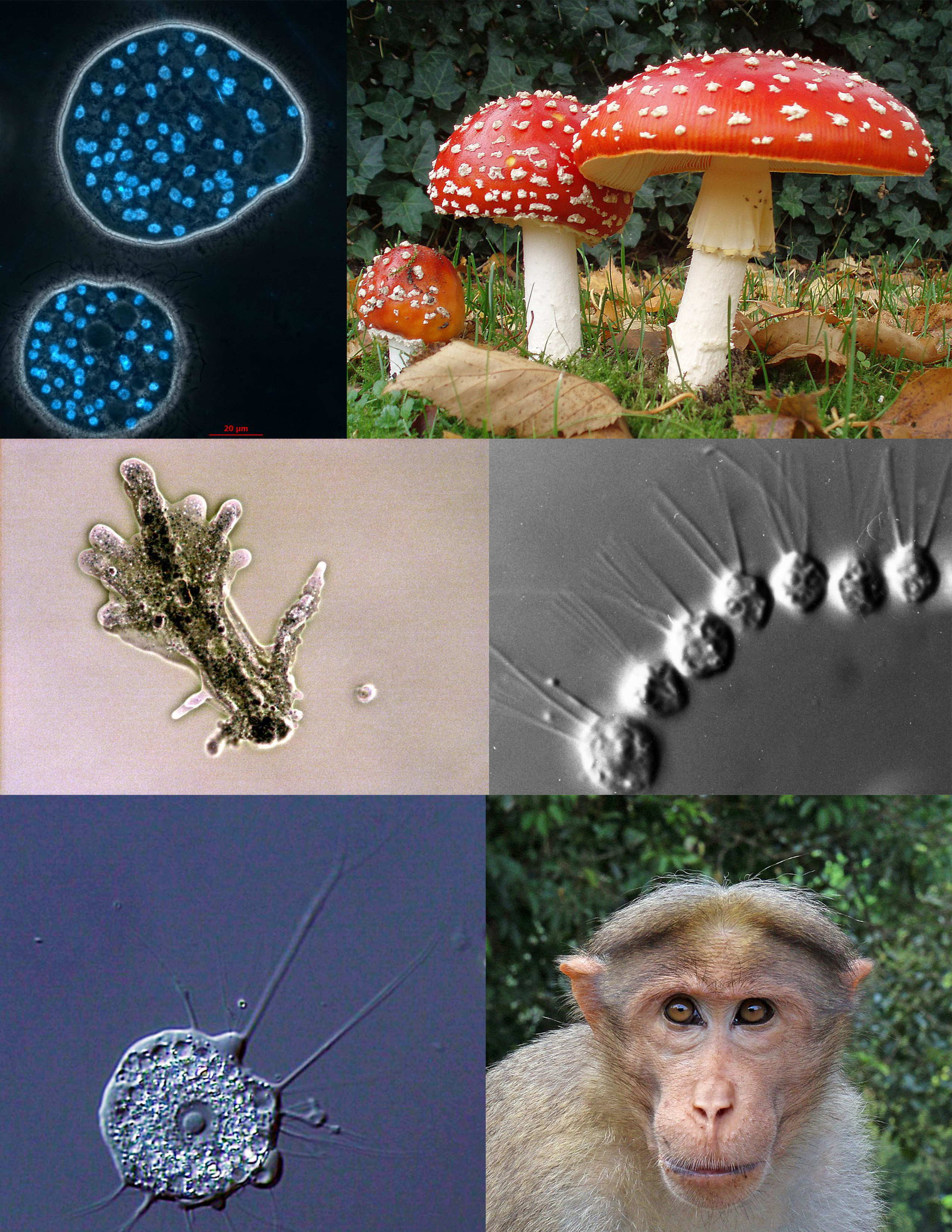 A collage of unikont organisms, composed of image from Wikimedia Commons. Clockwise, from top left: Abeoforma whisleri (Ichthyosporea); Amanita muscaria (Fungi); Desmarella moniliformis (Choanoflagellatea); Bonnet Macaque (Animalia); Nuclearia thermophila (Nucleariida); Amoeba proteus (Amoebozoa)